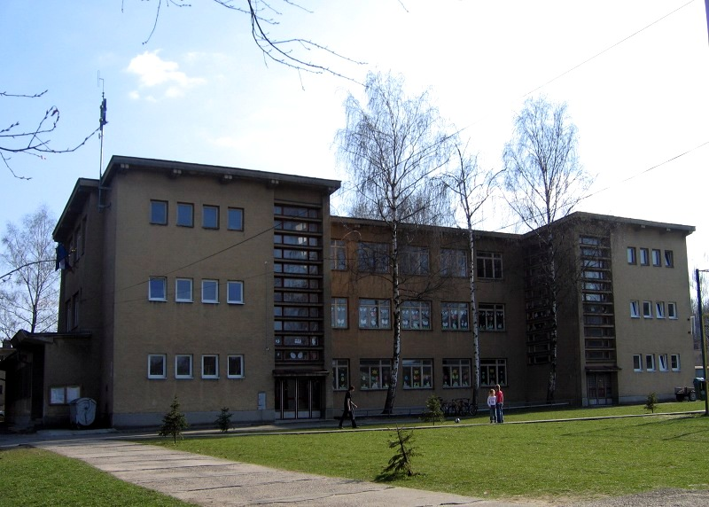 School in Žilina-Závodie